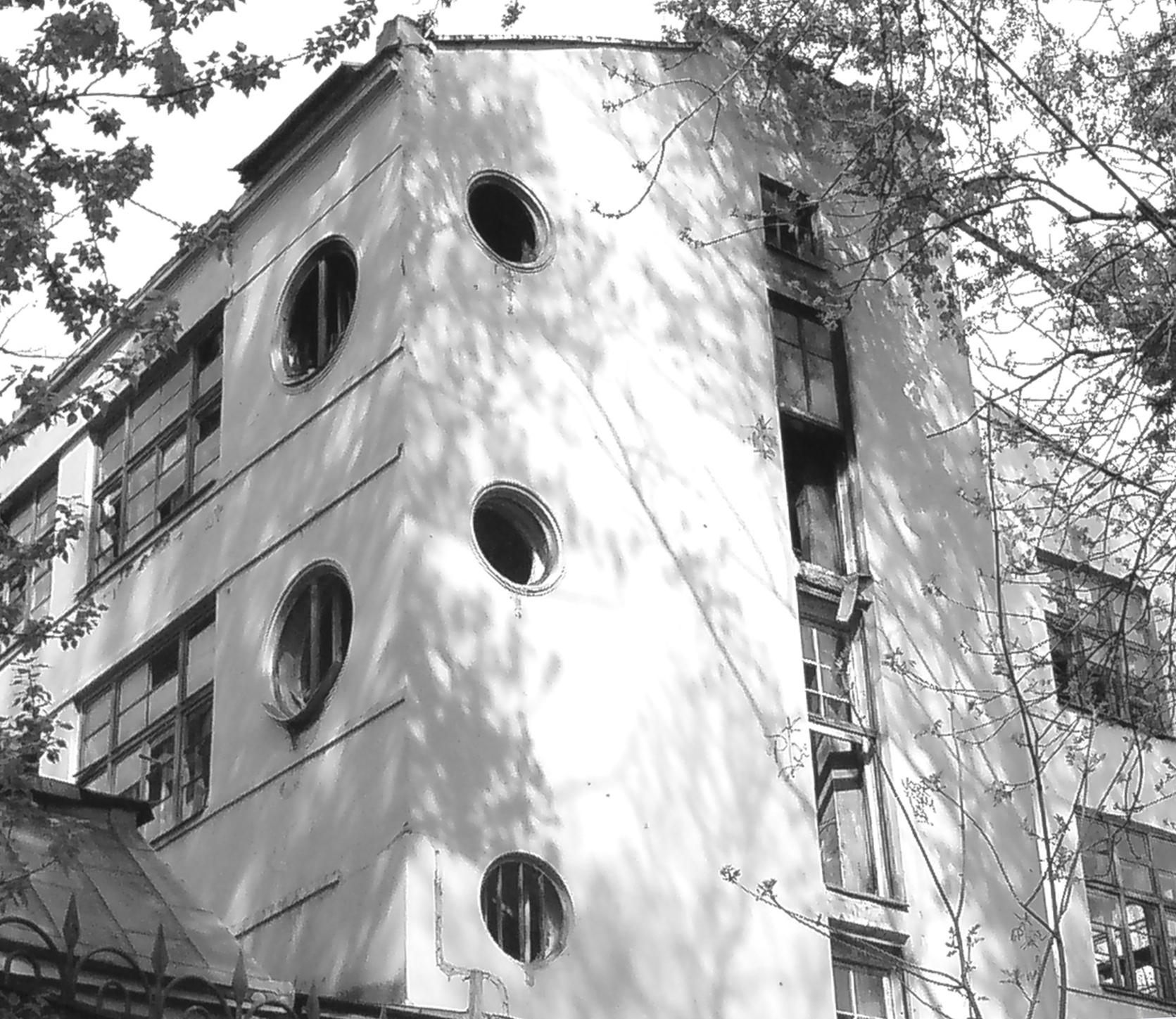 The print shop "OGONYOK" designed by El Lissitzky, located at 55°46′38″N 37°36′39″E / 55.777277°N 37.610828°E / 55.777277; 37.610828 17, 1st Samotechny Lane. It is Lissitzky's sole tangible work of architecture. It was commissioned in 1928 by Ogonyok magazine to be used as a print shop. In June 2007 the independent Russky Avangard foundation filed a request to list the building on the heritage register. In September 2007 the city commission (Moskomnasledie) approved the request and passed it to the city government for a final approval, which did not happen. In October 2008, the abandoned building was badly damaged by fire.